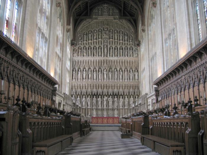 Chapel of New College Photo credit: Michael Reeve Capture date: 30 May 2004